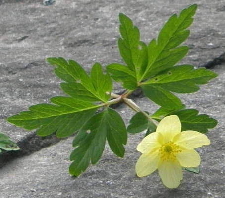 Picture of Anemone ×lipsiensis (Anemone nemorosa × Anemone ranunculoides